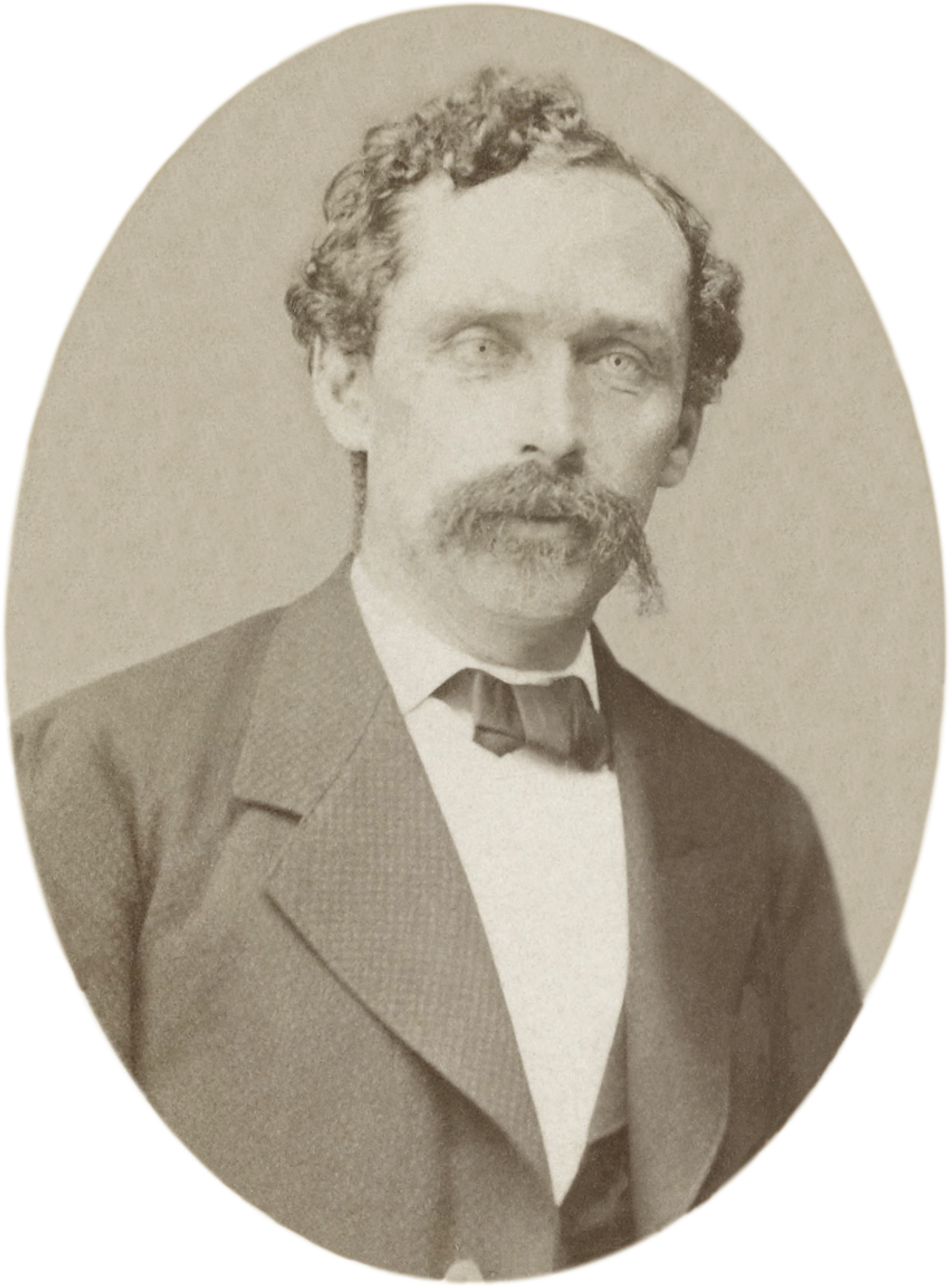 Gustav Nachtigal (1834 - 1885), german explorer.